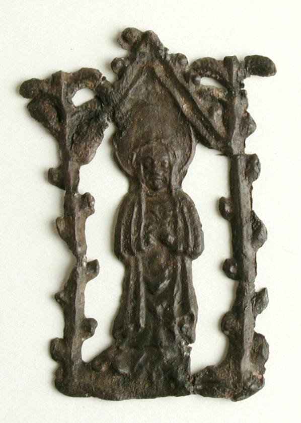 St. Corona, Pilgrims badge, lead, about 1400, Focke-Museum Bremen